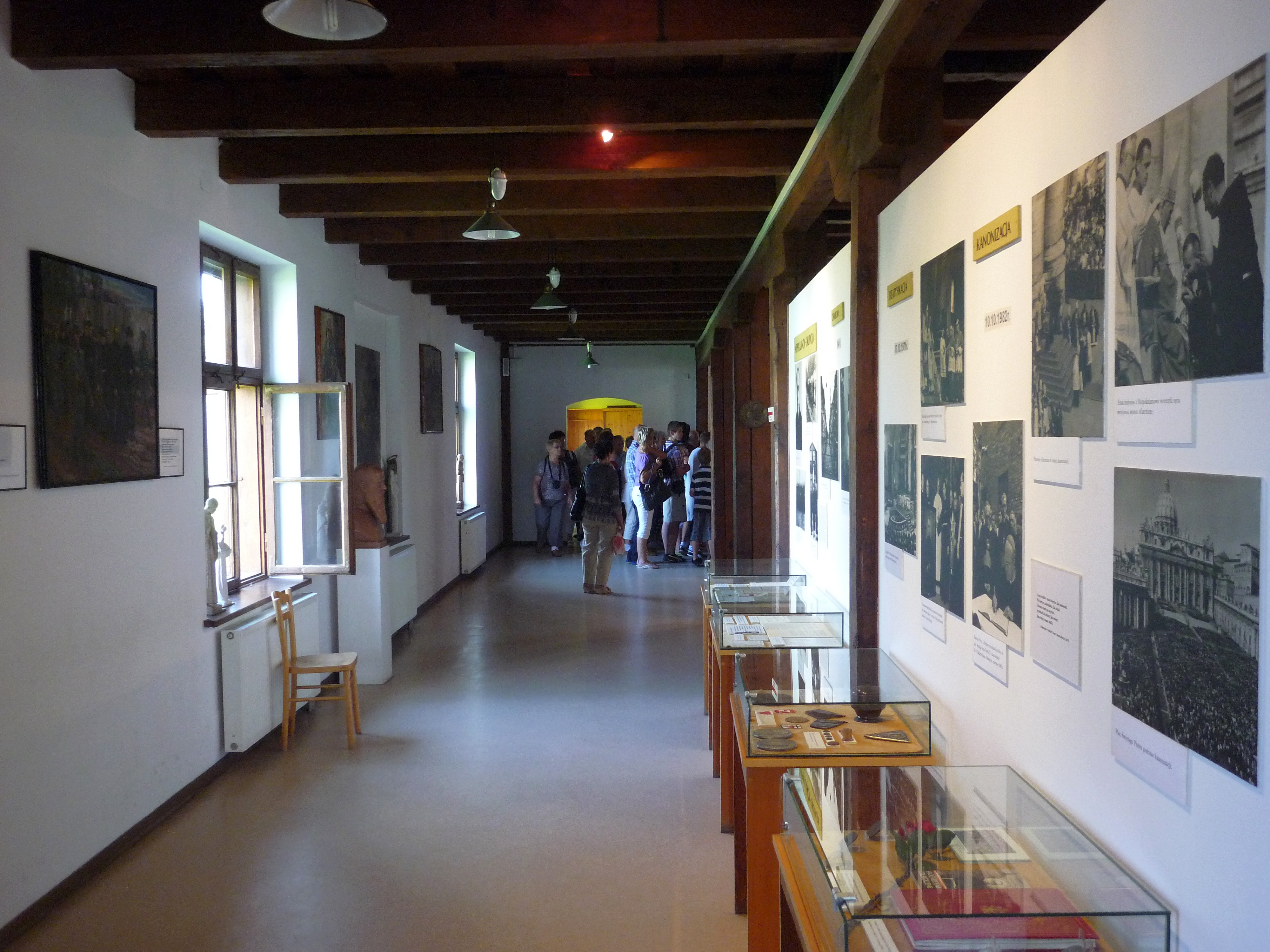 Museum of St. Maximilian Kolbe, opened in 1998 (interior)